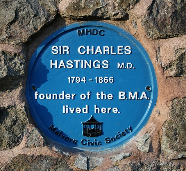 Plaque on Sir Charles Hastings' house Surgeon at Worcester Royal Infirmary.